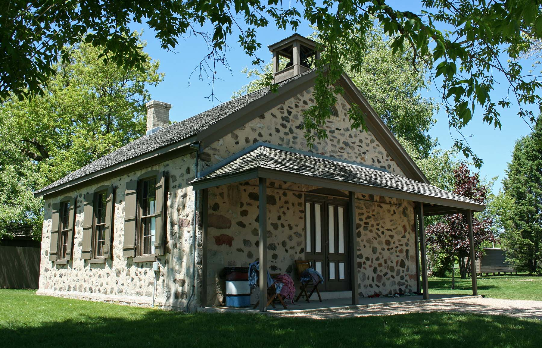 Stony Hill School, Waubeka Wisconsin, the birthplace of Flag Day. National Registered Historic Place